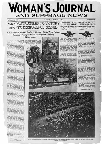 The first public act performed by Delta Sigma Theta's Founders involved their participation in the Women’s Suffrage March in Washington, D.C. in March 1913.